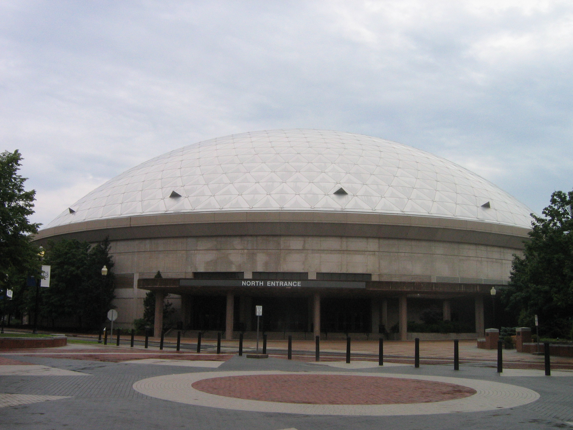 Football & Basketball Facilities UCONN Arena